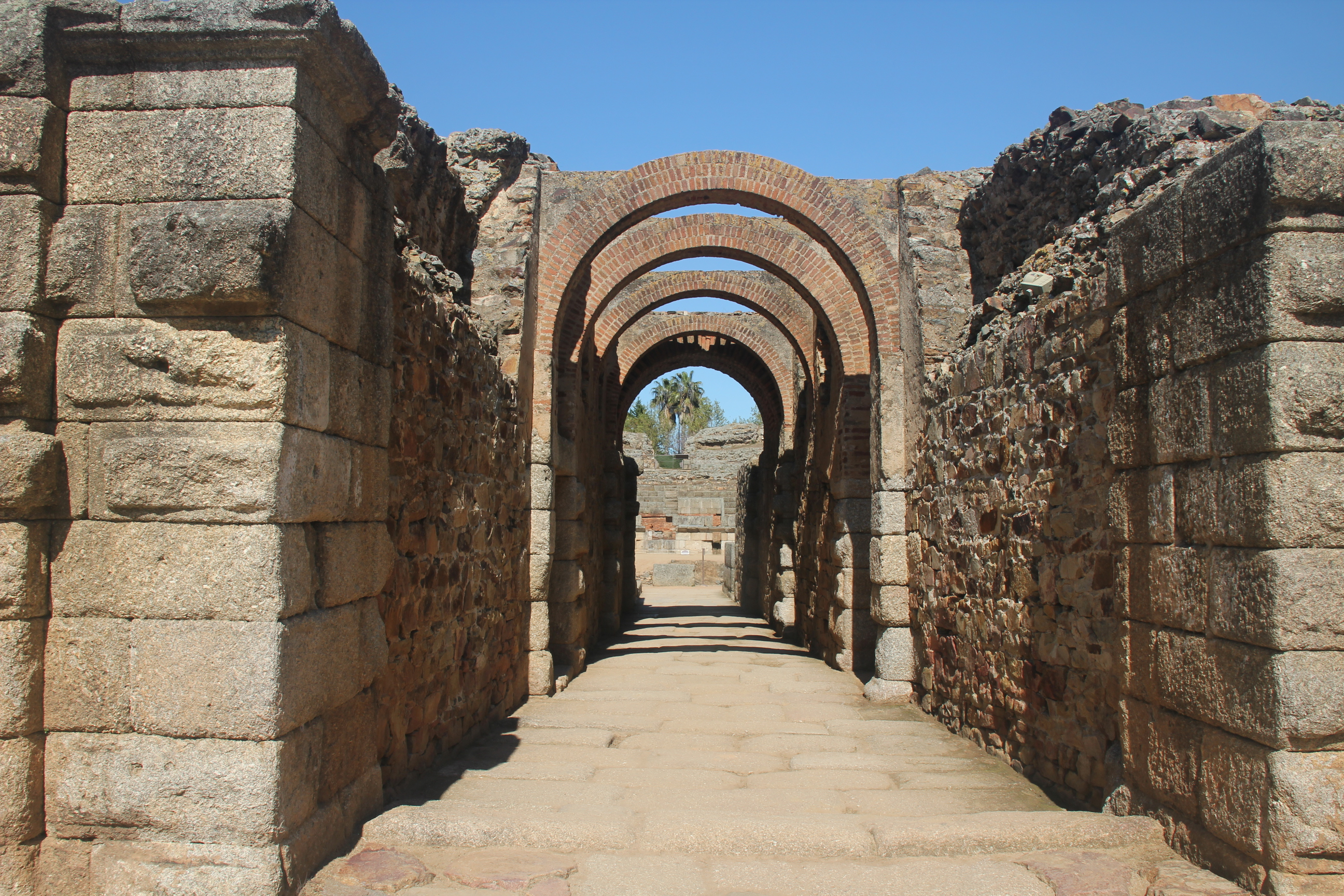 Roman Amphitheatre in Mérida